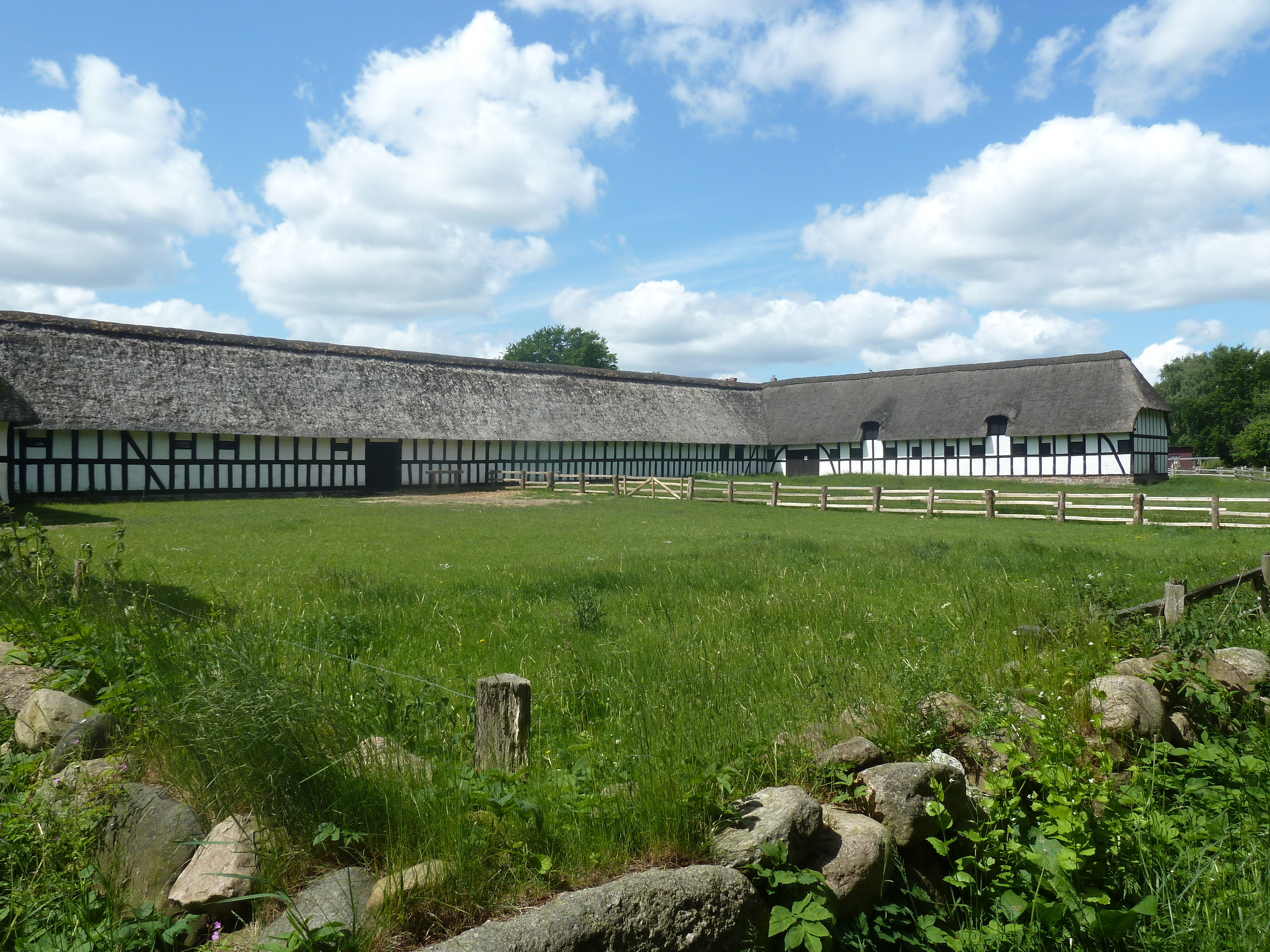 Manor from Fjellerup, Djursland, now on Frilandsmuseet (the open air museum) north of Copenhagen.